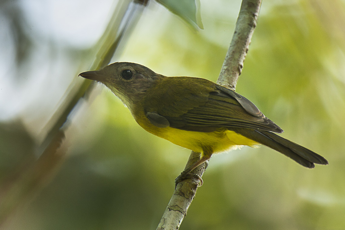 Yellowish Bulbul - Philippines_H8O1414